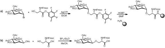 GlcNAc_Beta_Asn